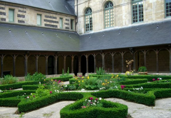 Cloister, Montivilliers abbey, Normandy, France.